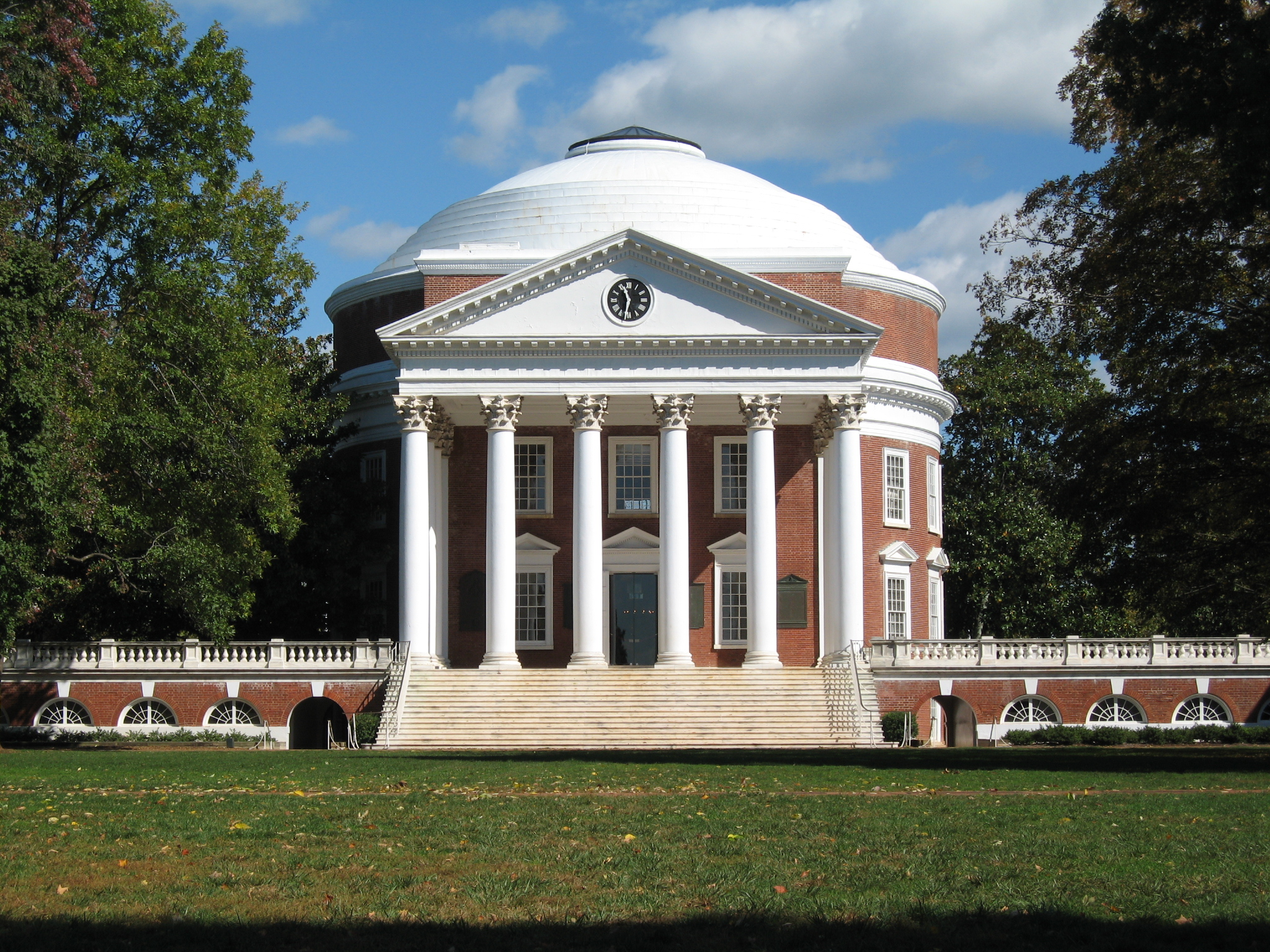 The Rotunda at the University of Virginia. Charlottesville, Virginia, United States